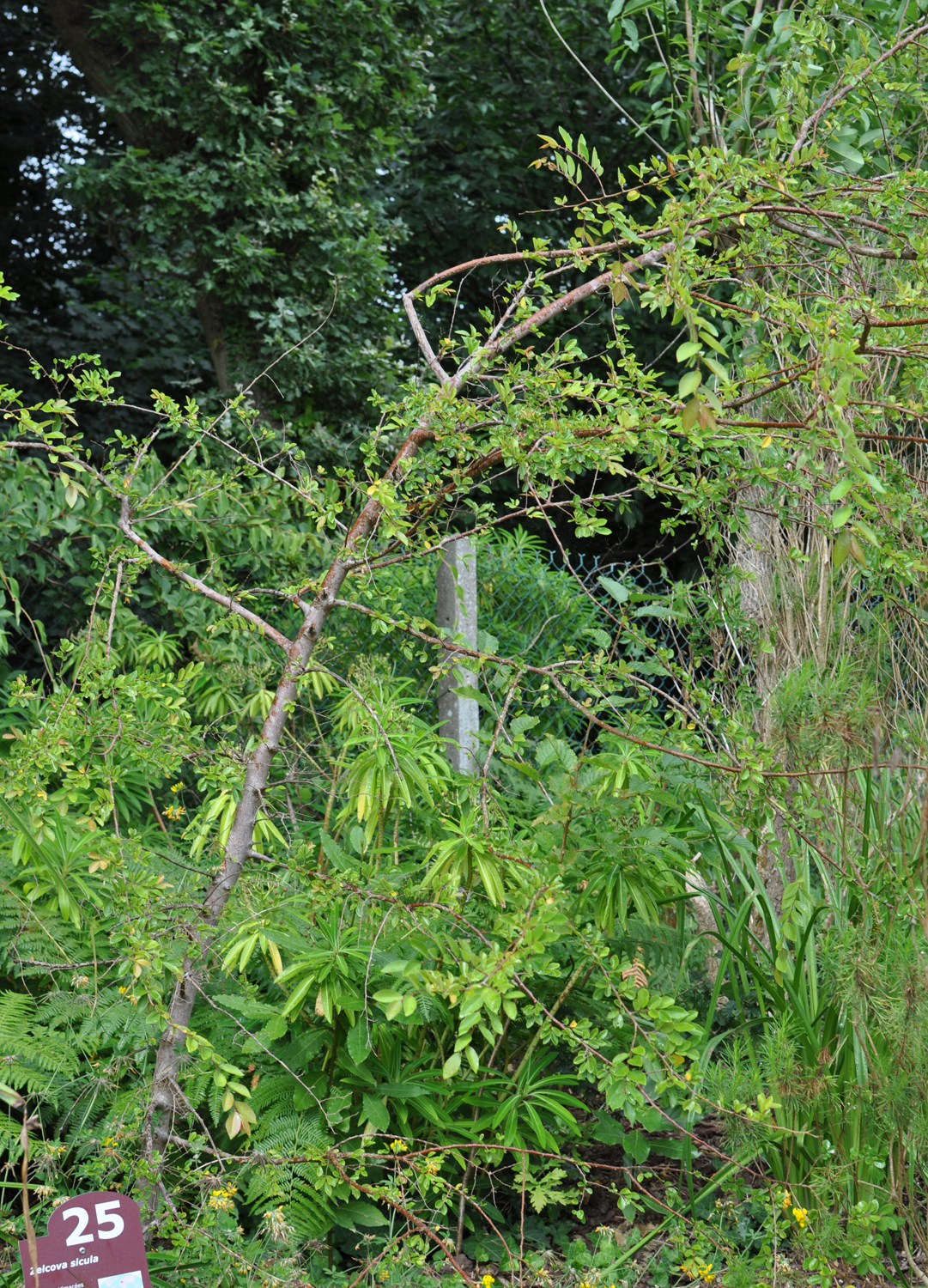 Zelkova sicula Conservatoire botanique national de Brest Native nameConservatoire botanique national de BrestLocationBrest, FranceCoordinates48° 24′ 10.35″ N, 4° 26′ 53.58″ W Established1975: established, 1978: opened to publicWeb page Authority control : Q2994486 VIAF: 135879850 ISNI: 0000 0000 9261 8684 LCCN: no95047958 WorldCat institution QS:P195,Q2994486